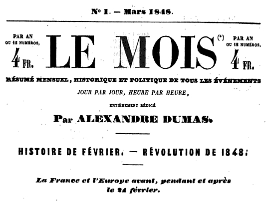 Page de titre. Le Mois, résumé mensuel, historique et politique de tous les événements, jour par jour, heure par heure, entièrement rédigé par Alexandre Dumas], Mars 1848-février 1850.